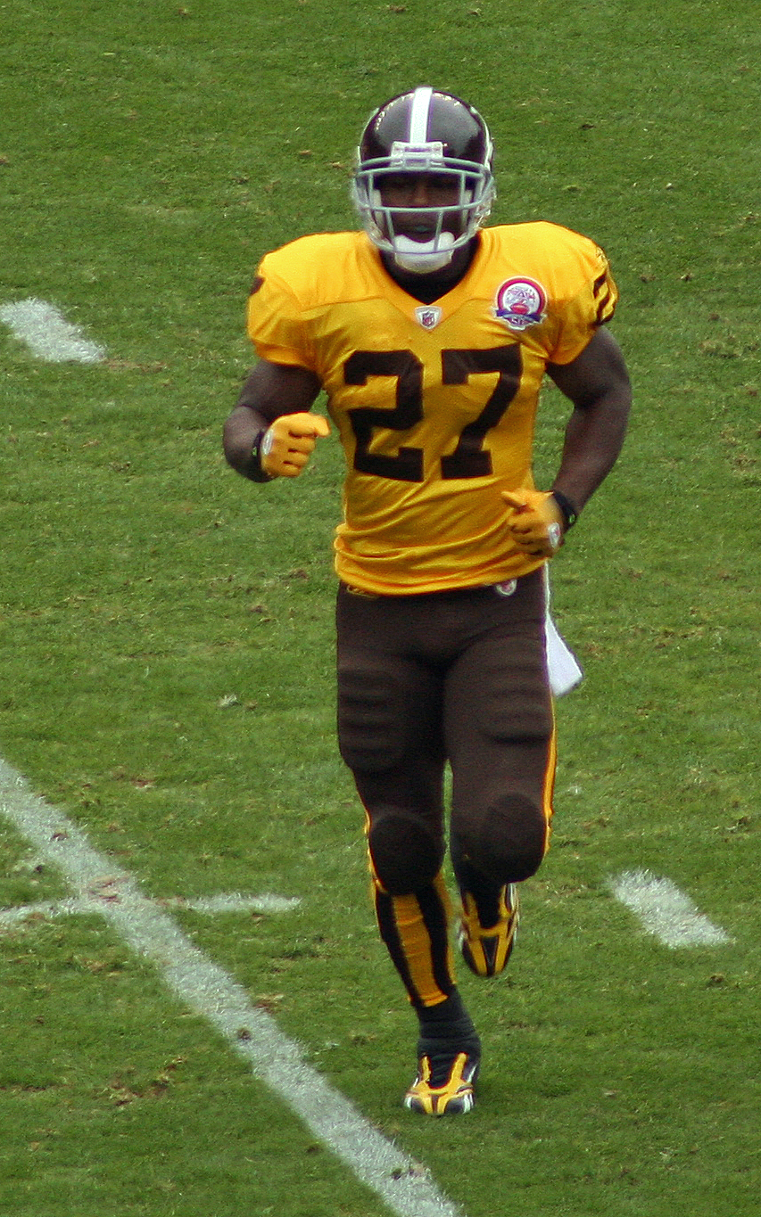 Knowshon Moreno, a player with the Denver Broncos American football team.